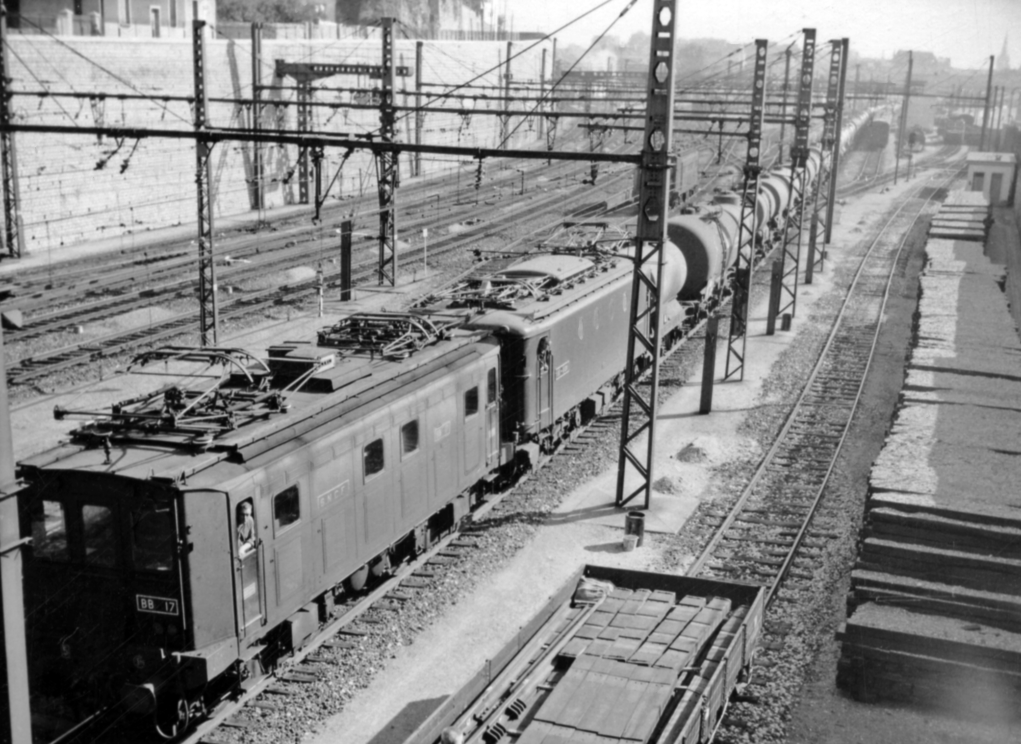 A Bo-Bo (class 1-80) pilots another Bo-Bo (class 8100) electric on a lengthy train of wine-tankers northward on the PLM main line at Dijon (Cote d'Or), 1959.